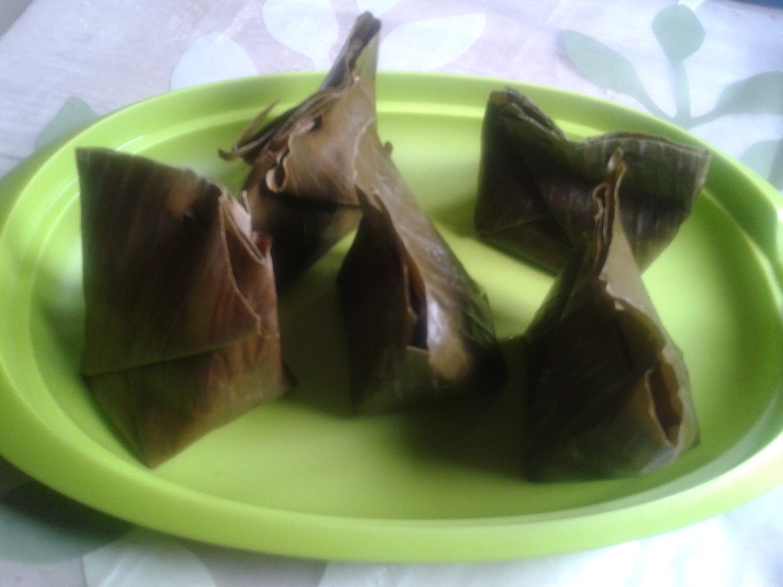 Botok, traditional Javanese dish made from shredded coconut flesh mixed with vegetables or fish, wrapped in banana leaf and steamed